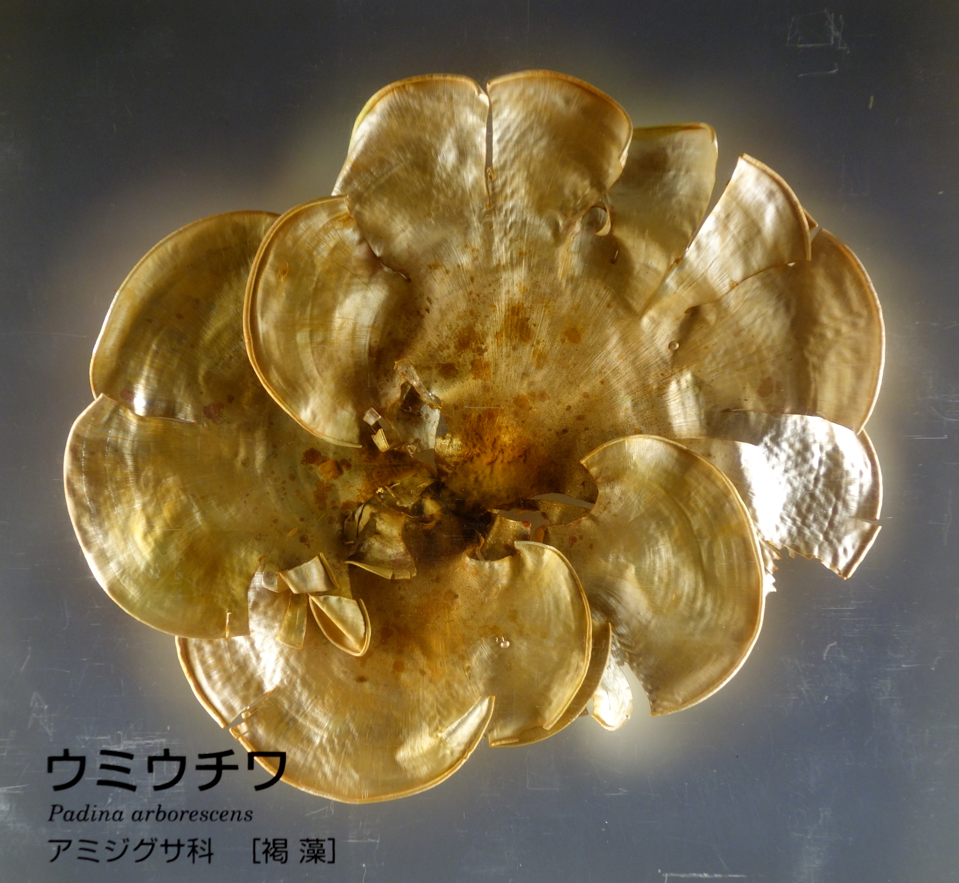 Exhibit in the National Museum of Nature and Science, Tokyo, Japan.